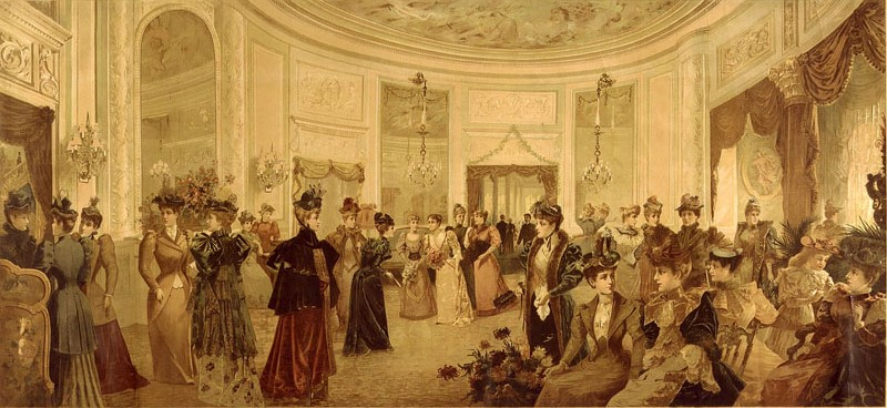 New York, reception at the Octagon Room of the Waldorf-Astoria Hotel, 1893